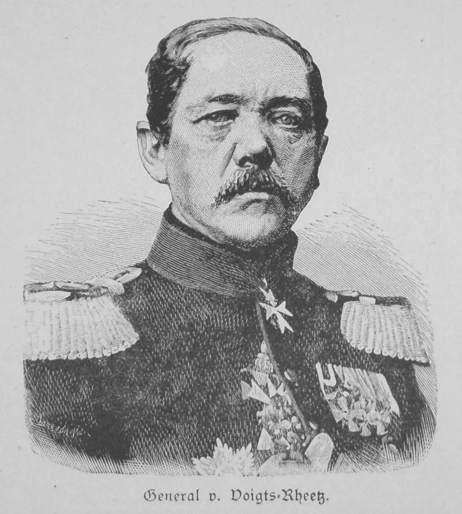 general von Voigts-Rheetz